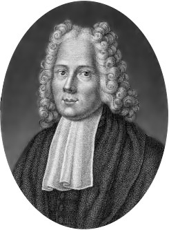 Alessandro Marchetti (mathematician) (1633 - 1714)